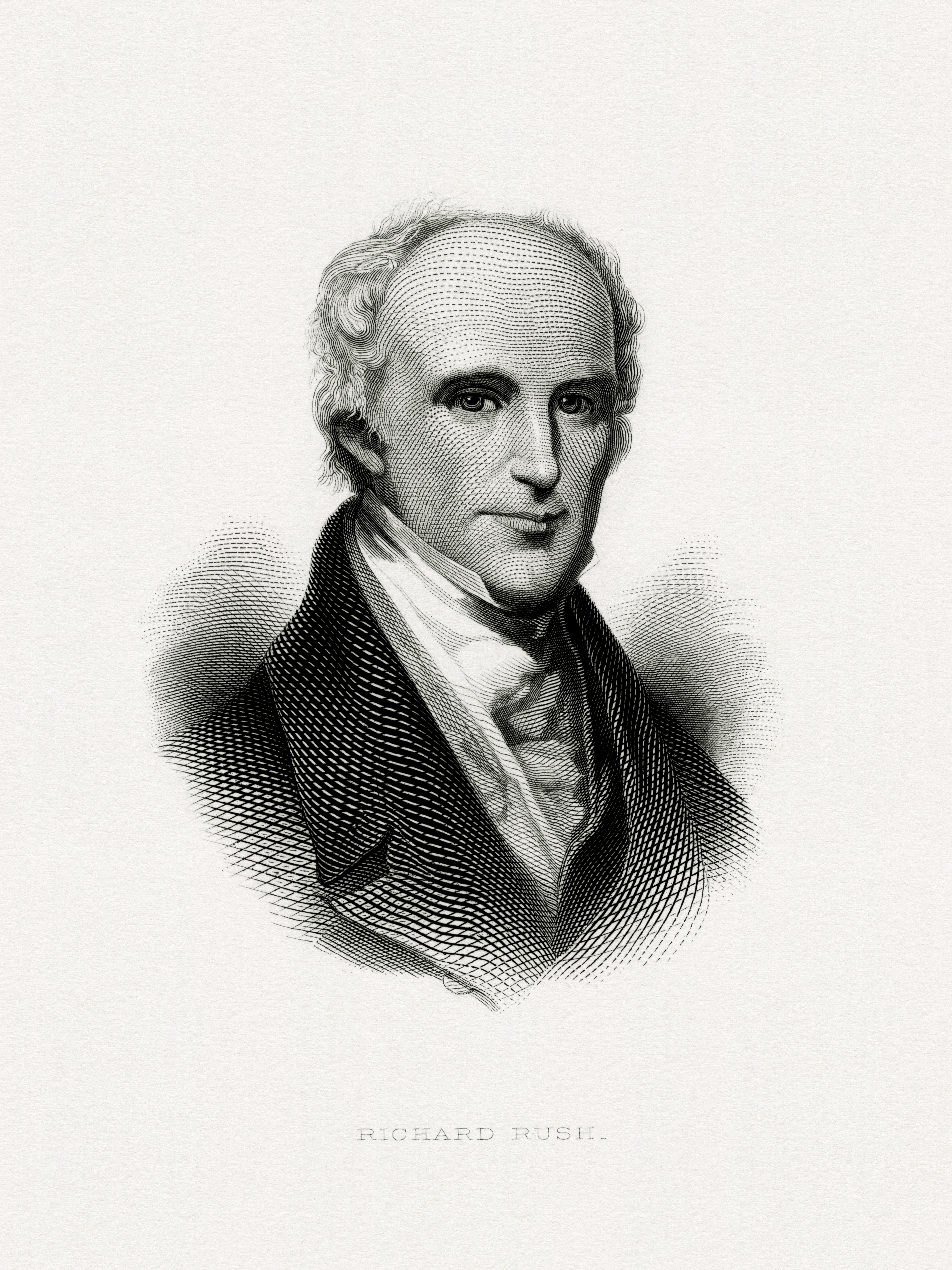 Engraved BEP portrait of U.S. Secretary of the Treasury Richard Rush